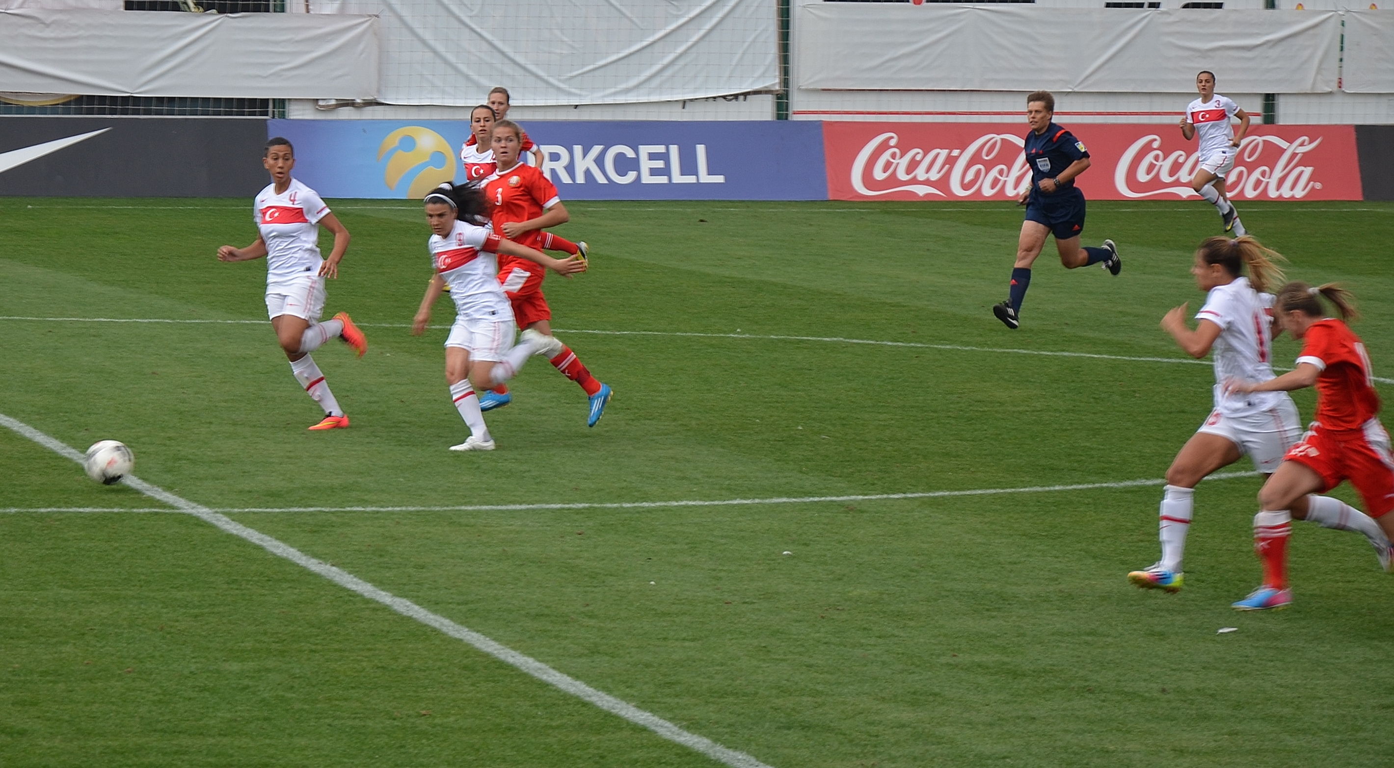 2015 FIFA Women's World Cup qualification – UEFA Group 6 match Turkey vs Belarus on September 17, 2014